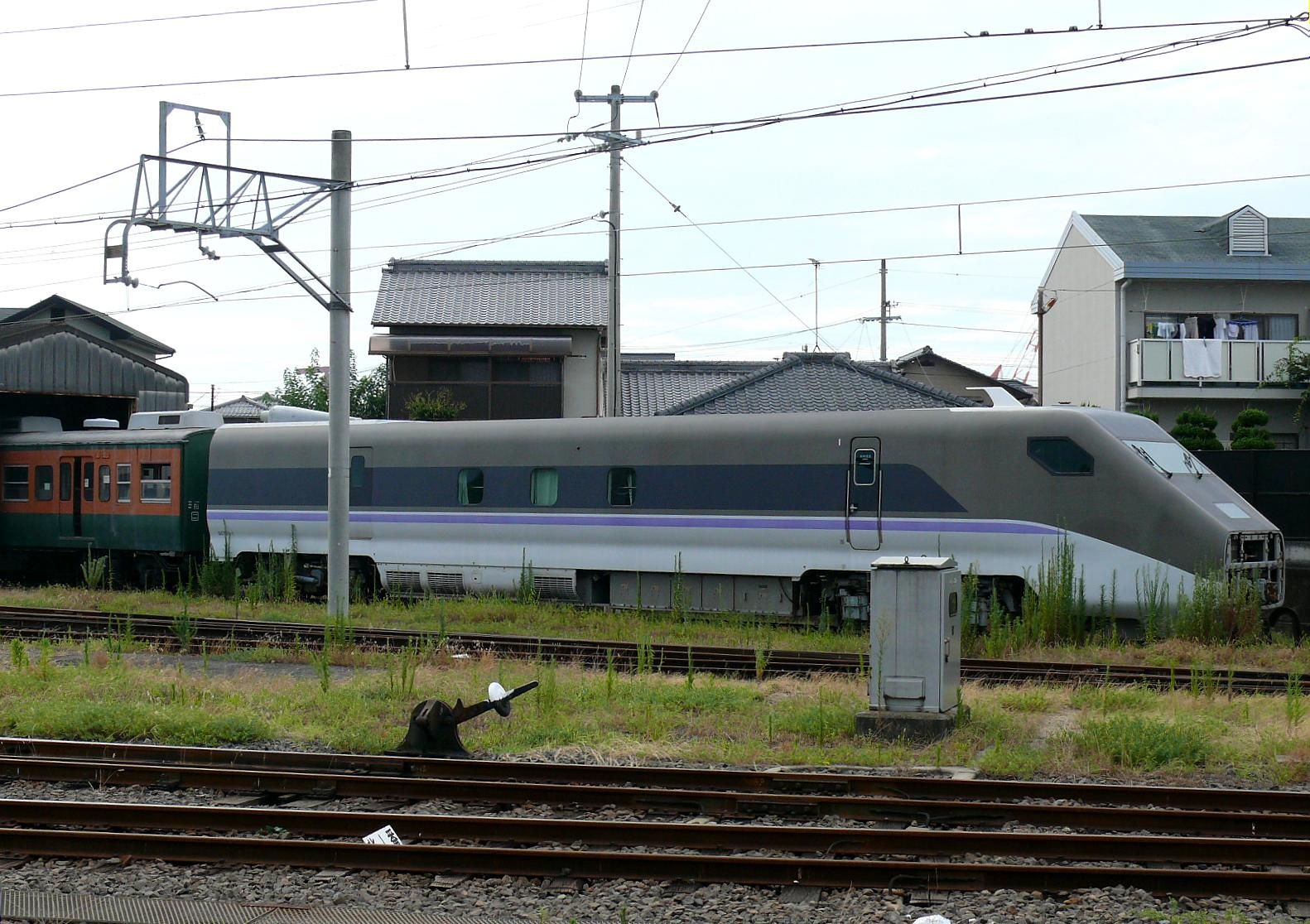 First-generation GCT "Free Gauge Train" stored at the JR Shikoku Tadotsu Works. Photographed from a public road.